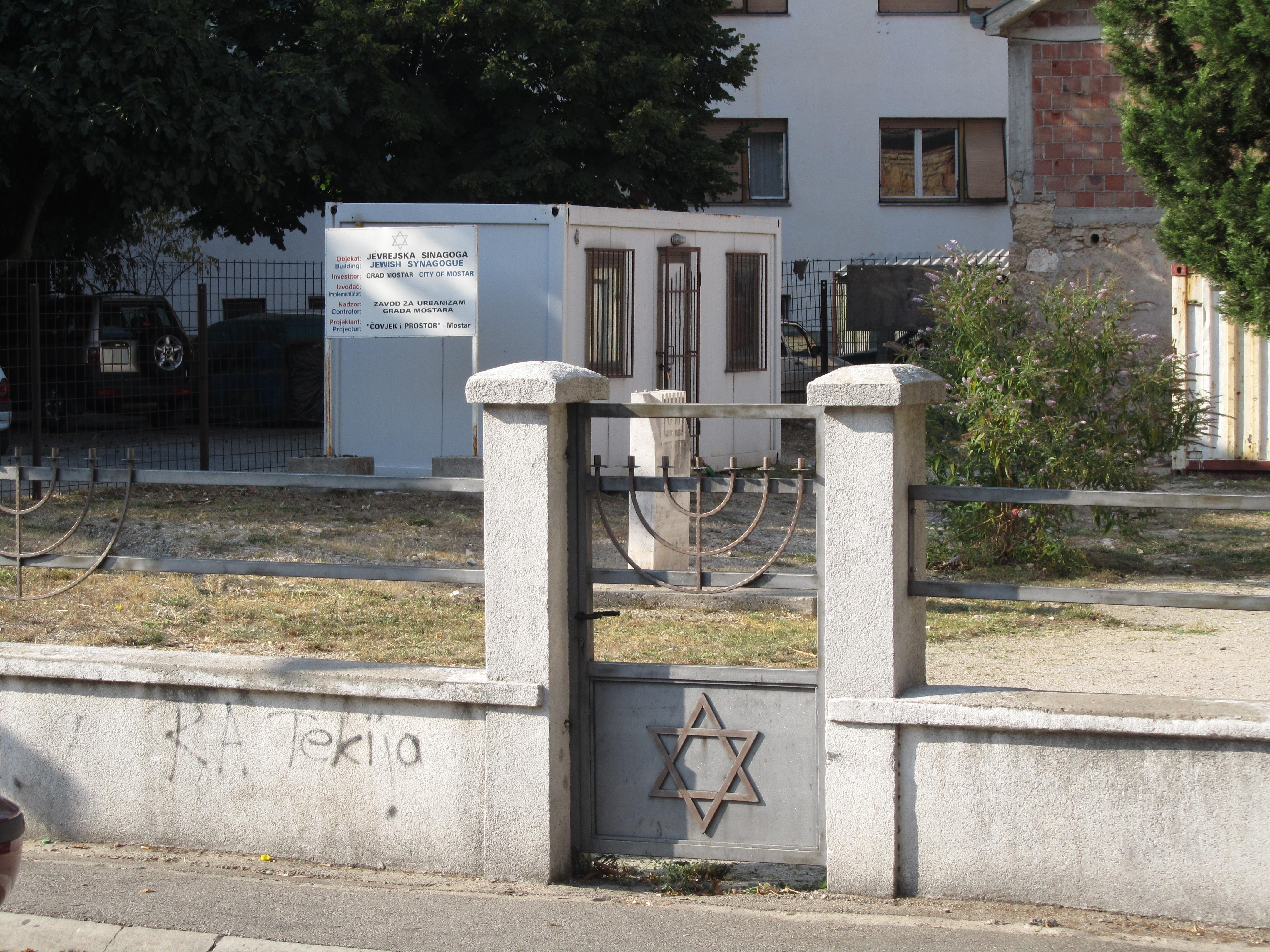 Mostar, Western Part of the City, Place of the Synagogue